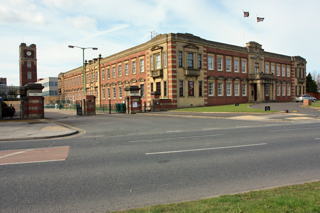 Terrys' chocolate factory Terrys is now owned by global behemoth Kraft foods and production has been moved from this site to other countries. The gridline runs parallel to the front wall of the building and just a few metres this side.